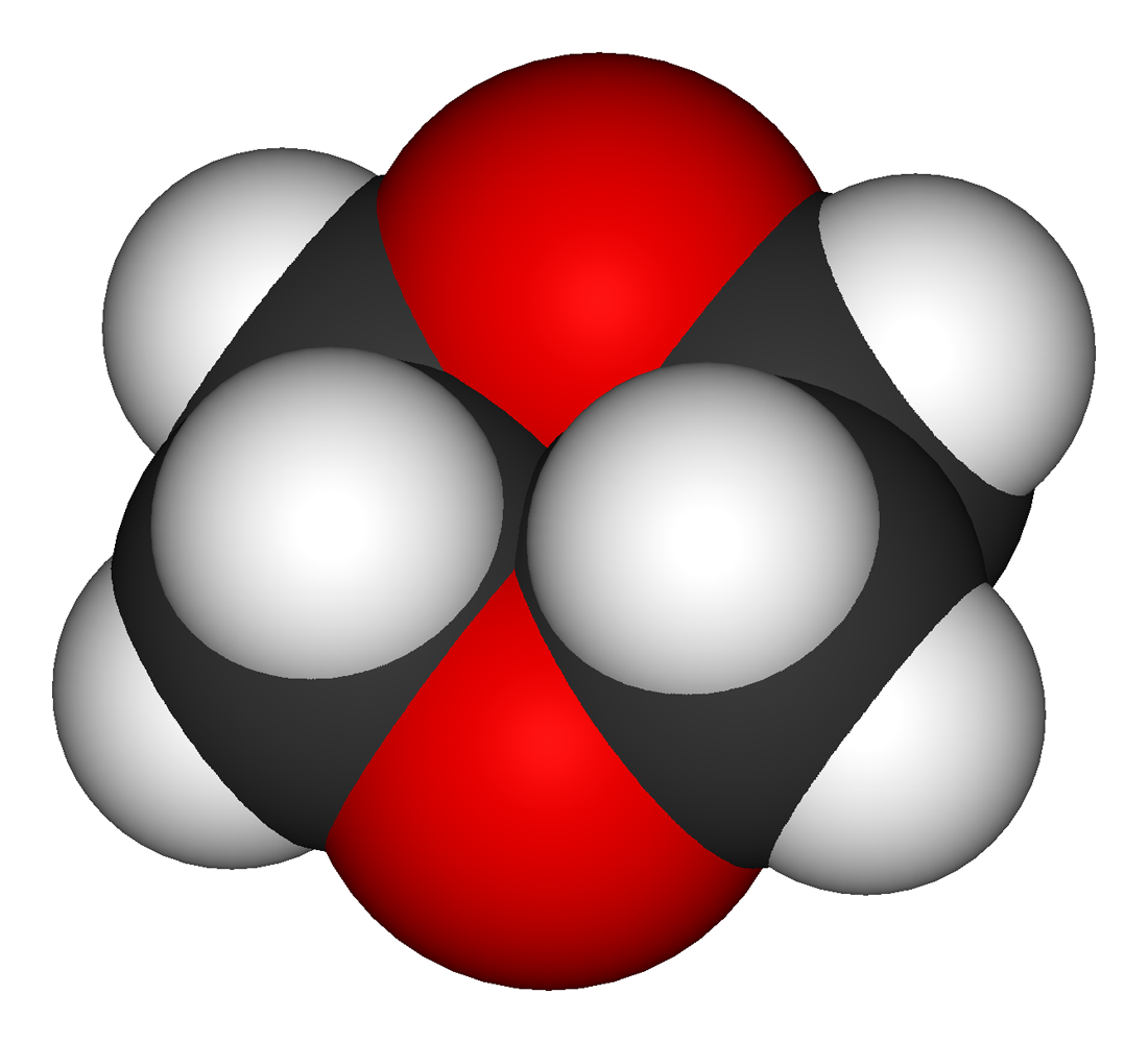 Space-filling model of the chemical compound 1,4-Dioxane